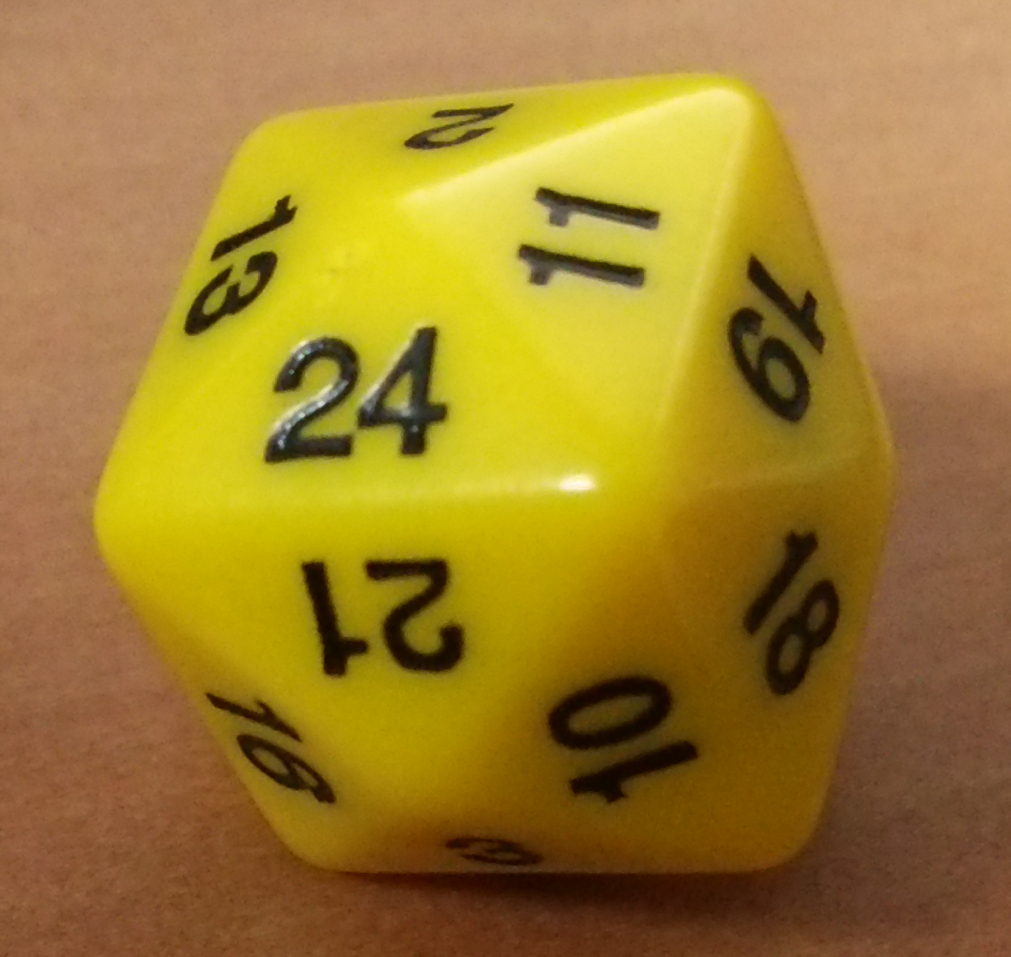 tetrakis hexahedron dice